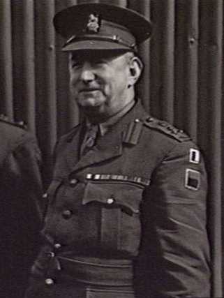 Brigadier Eugene Gorman MC of the 2/11th Australian Infantry Battalion. Photo taken in Chidlow, Western Australia.